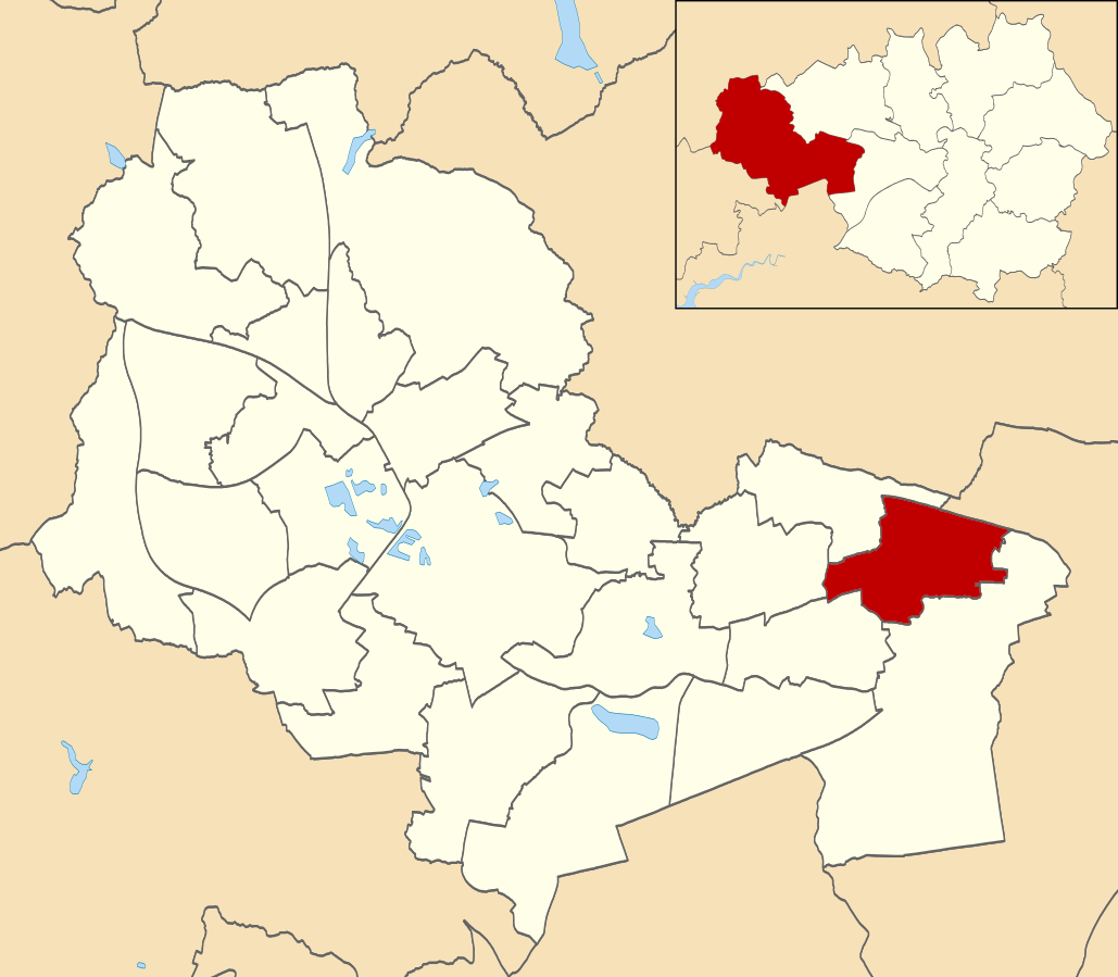 Map showing the location of Tyldesley ward within Wigan Metropolitan Borough Council